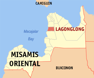 Map of the Misamis Oriental showing the location of Lagonglong